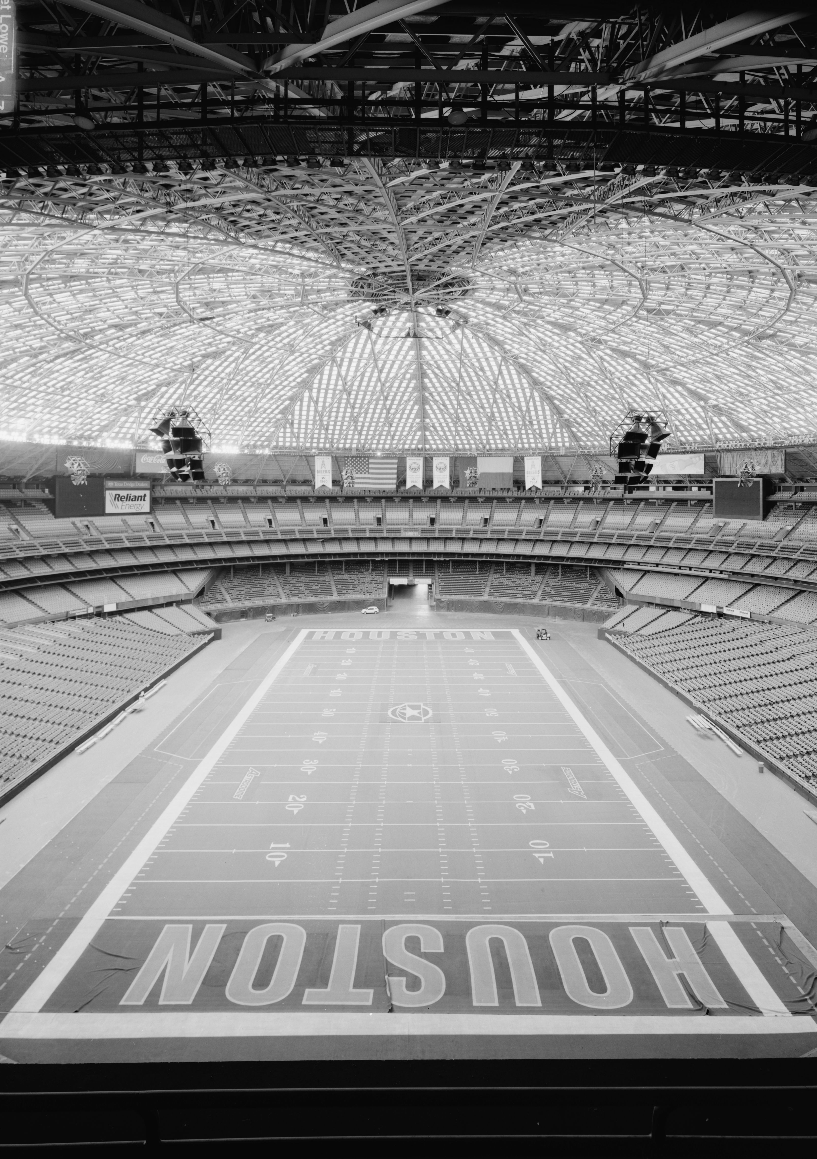 Interior of the Astrodome, part of the Historic American Buildings Survey/Historic American Engineering Record